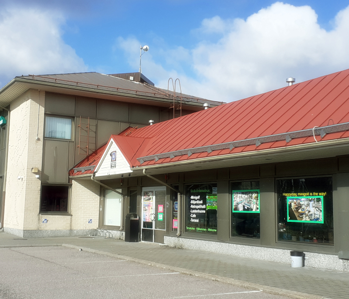 The Monaco Minigolf building in the center of Monninkylä.